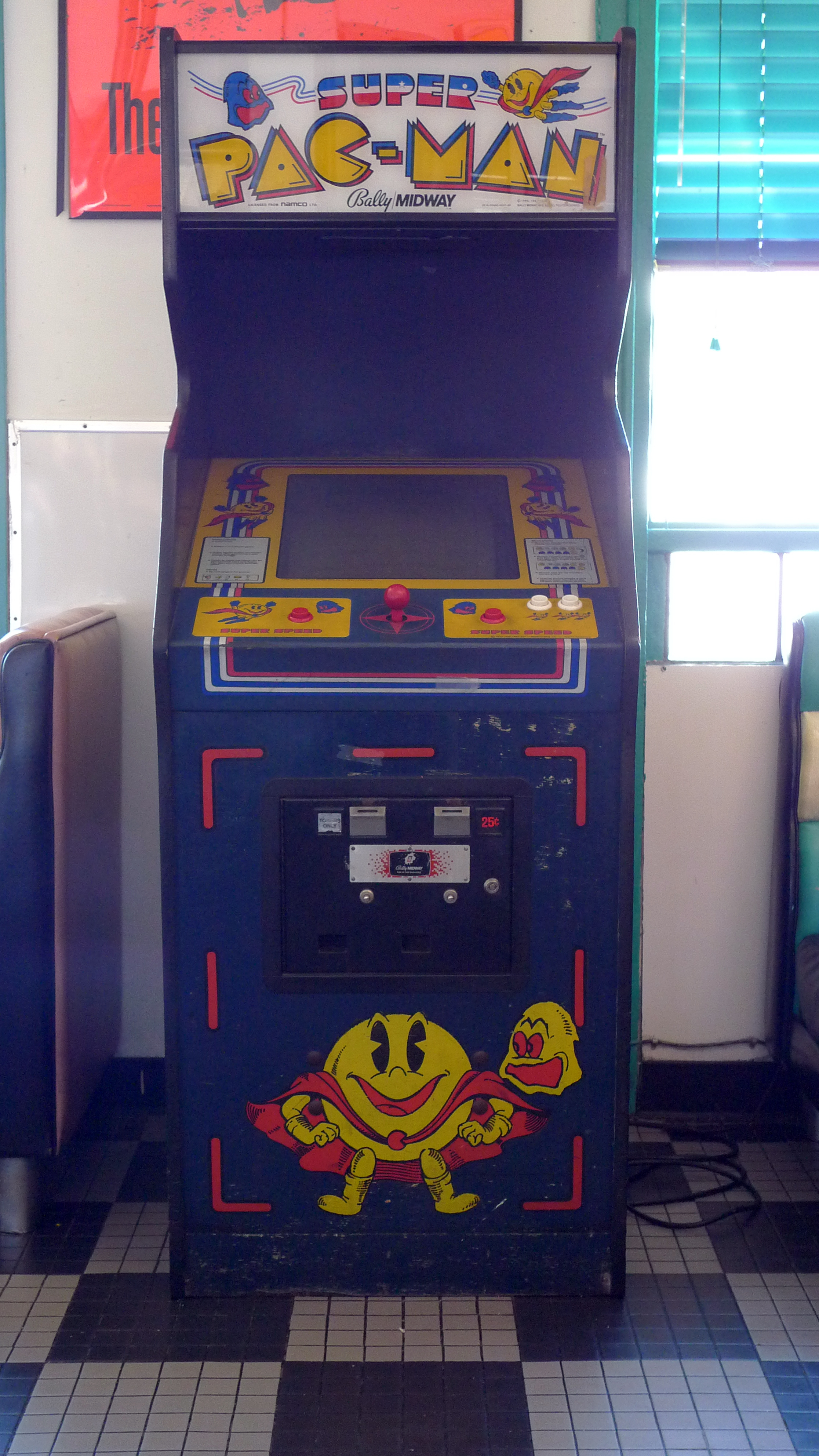 Super Pac-Man - Woody's Diner - Sunset Beach, CA